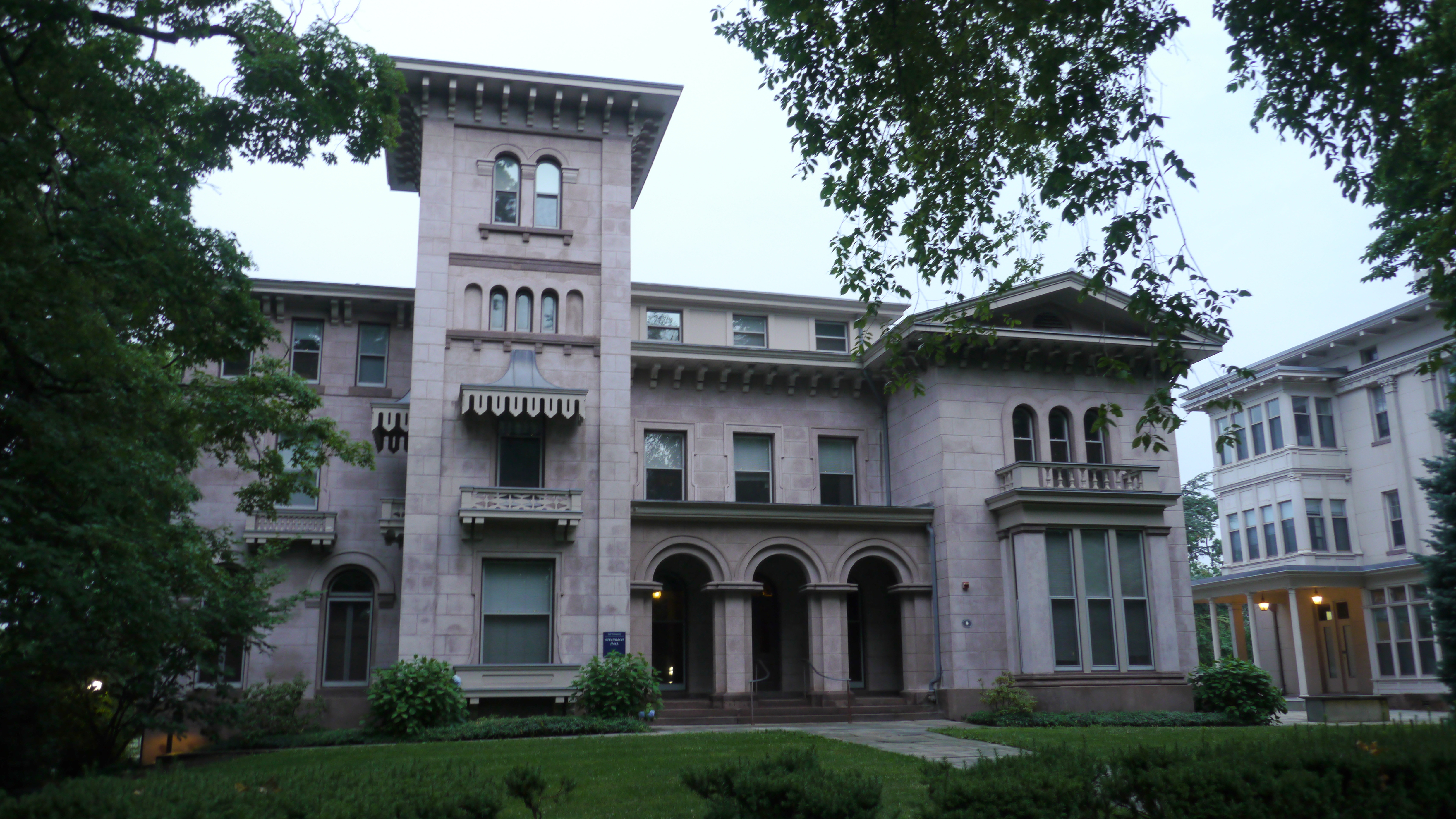 Steinbach Hall, historically know as the John Pitkin Norton House, 52 Hillhouse Ave in Hillhouse Avenue Historic District, owned by Yale University